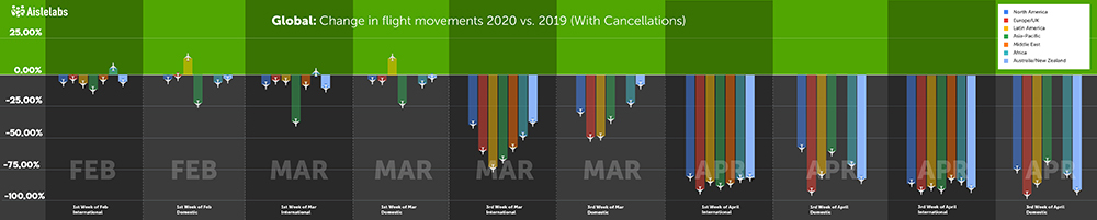 Change in number of flights by geography (North America, Europe/UK, Latin America, Asia-Pacific, Middle East, Africa, and Australia/New Zealand). Shared under Creative Commons Share Alike license at source.